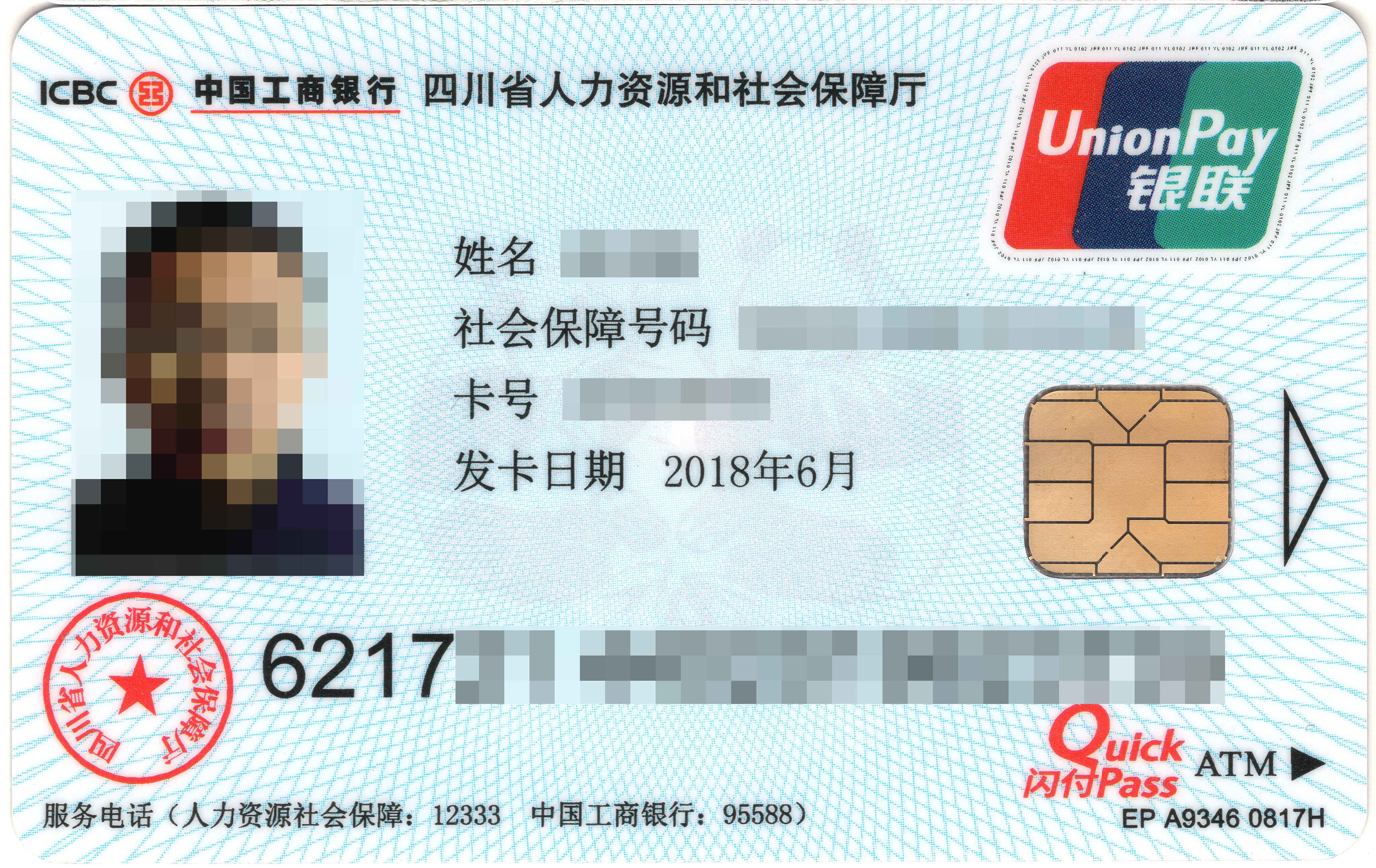 Social Security Card (The third version) of People's Republic of China, issued by Sichuan Provincial Human Resources and Social Security Department.